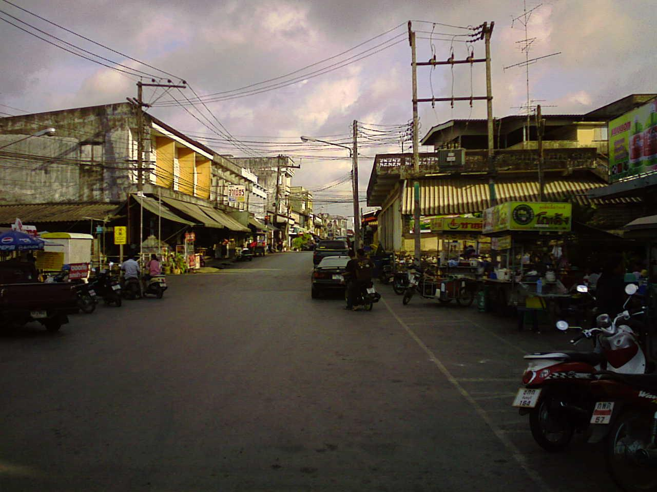 Thamai district area